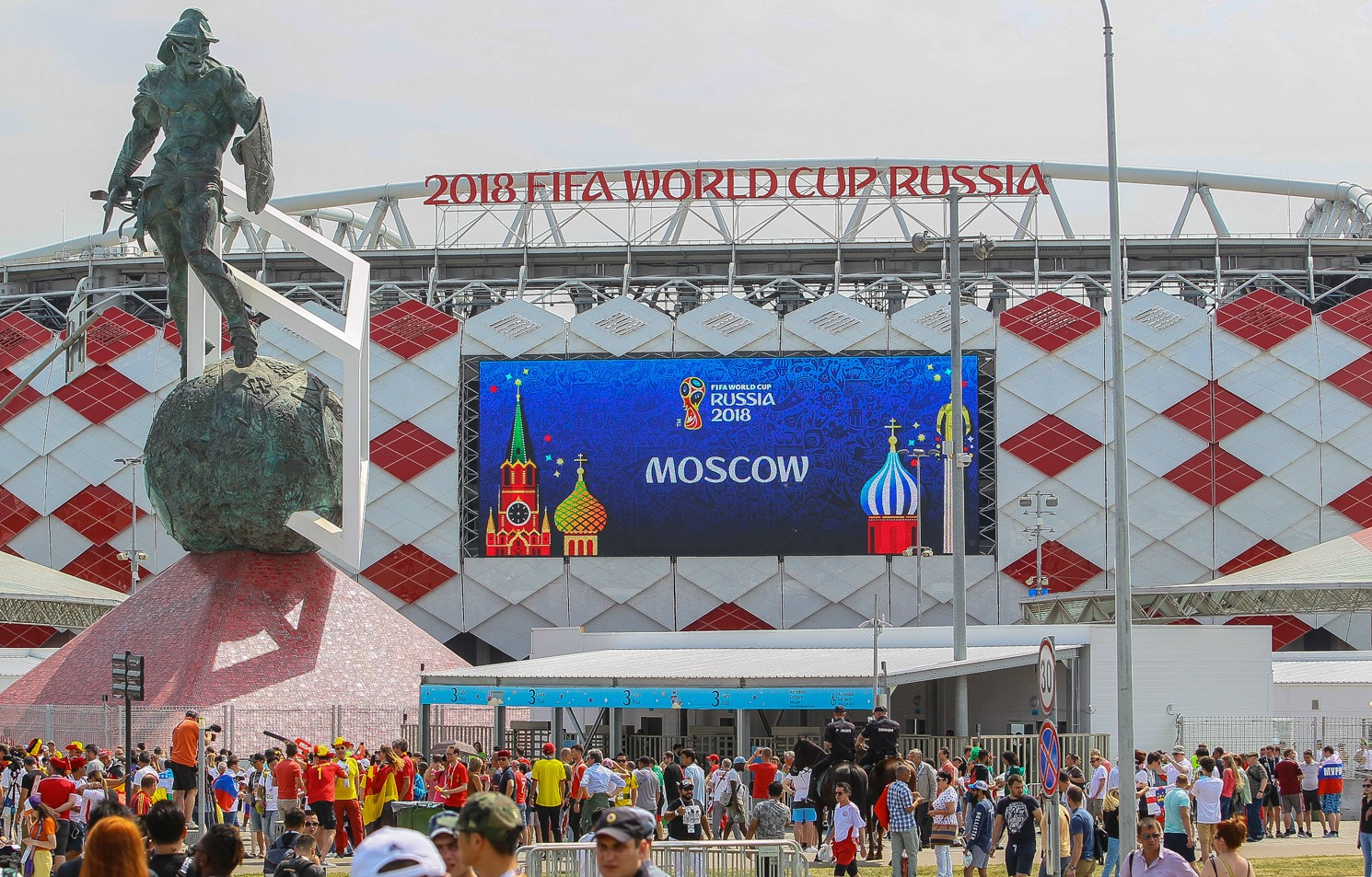 Belgium and Tunisia match at the FIFA World Cup 2018-06-23